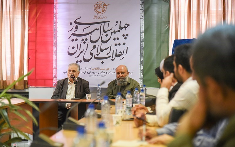 Masoud Nejabati,at the ceremony to unveil the 40th anniversary of the victory of the Islamic Revolution